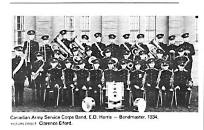 RCASC Band Calgary (From Past and present People, places and events in Calgary)